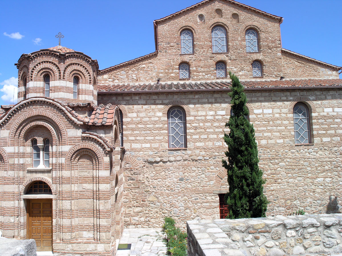 Old Metropolis in Serres, Greece. Photography taken by Marsyas on 07/31/2004.